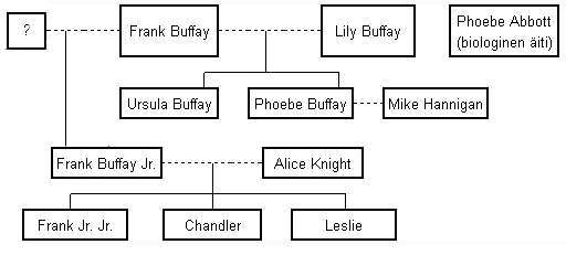 Phoebe Buffay's family tree (from Friends)